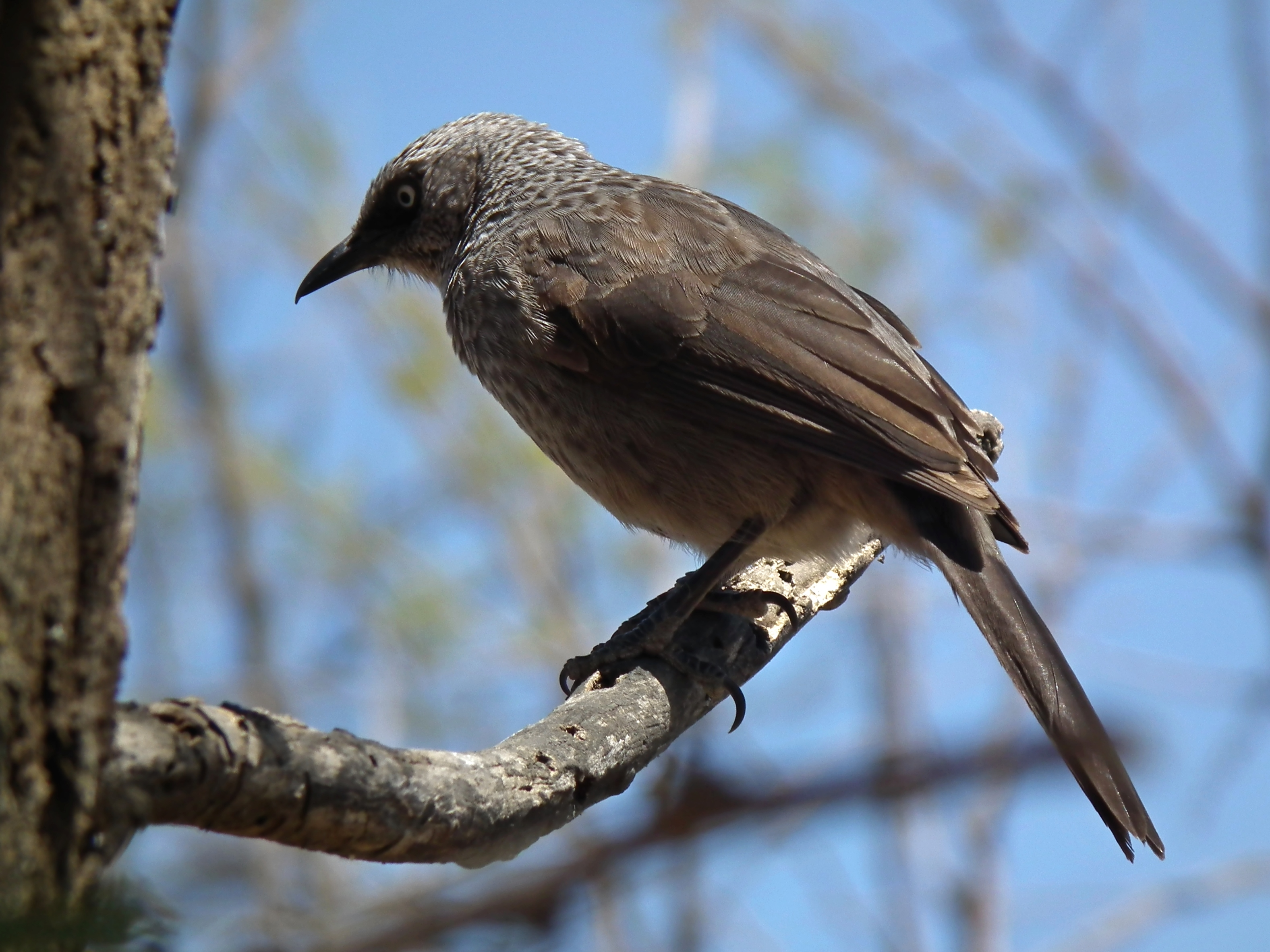 Black-lored Babbler (Turdoides sharpei) in Tanzania